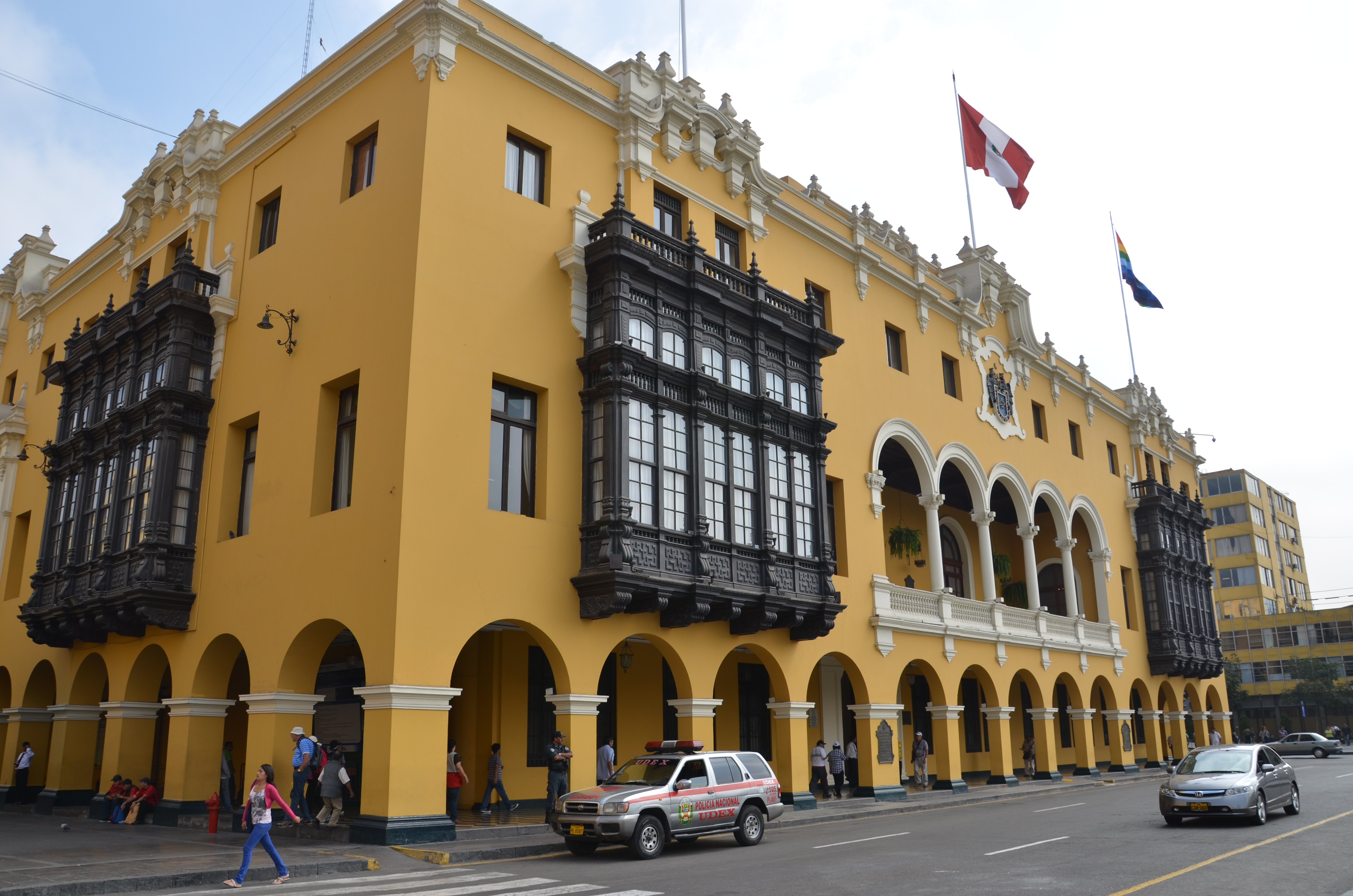 Lima, Peru - Plaza de Armas.